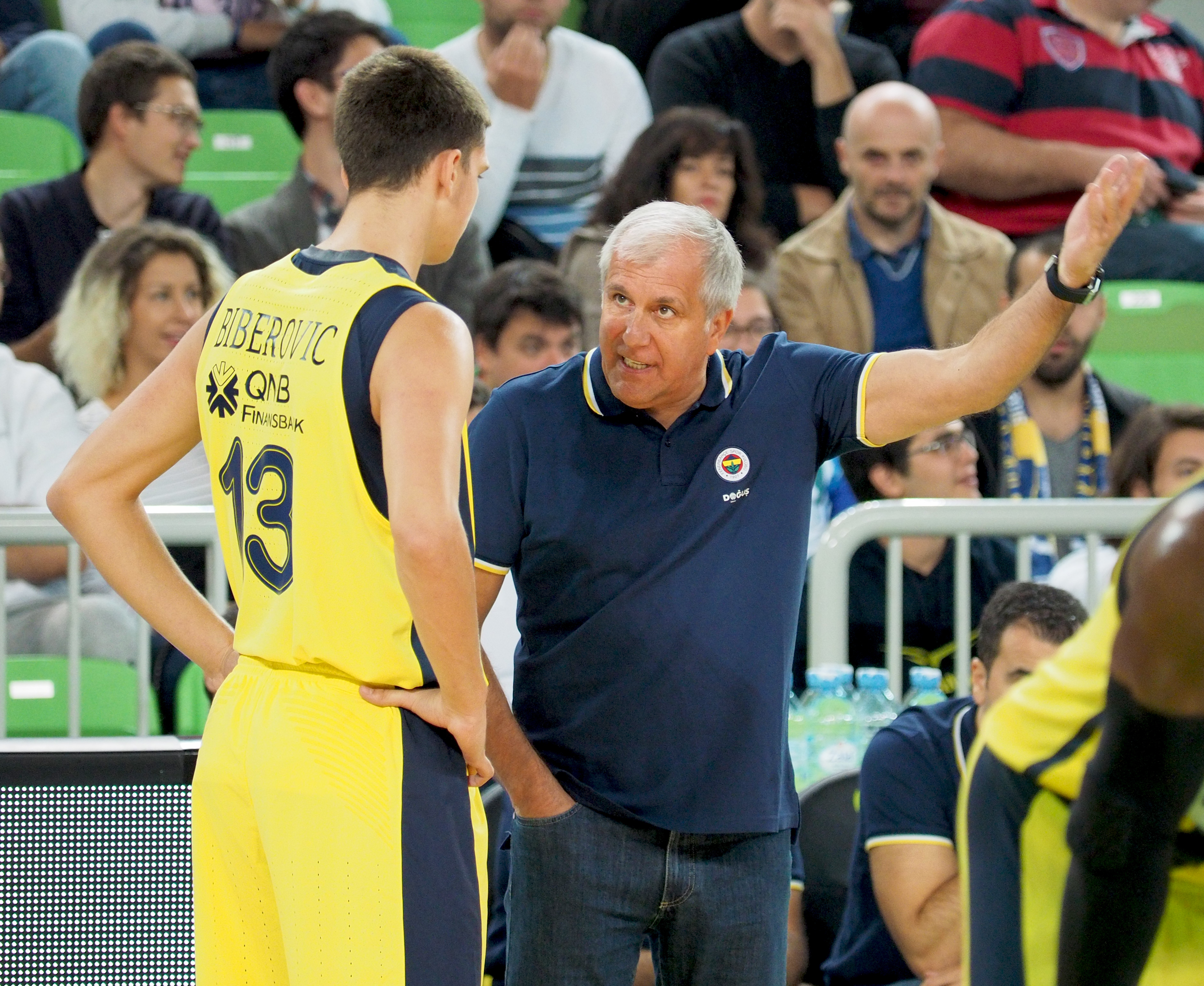 Željko Obradović talking to Tarik Biberović (Fenerbahçe, 2017). This photograph was taken with a Olympus E-M1.